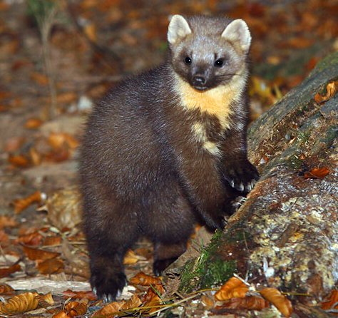 Crop of file in filename